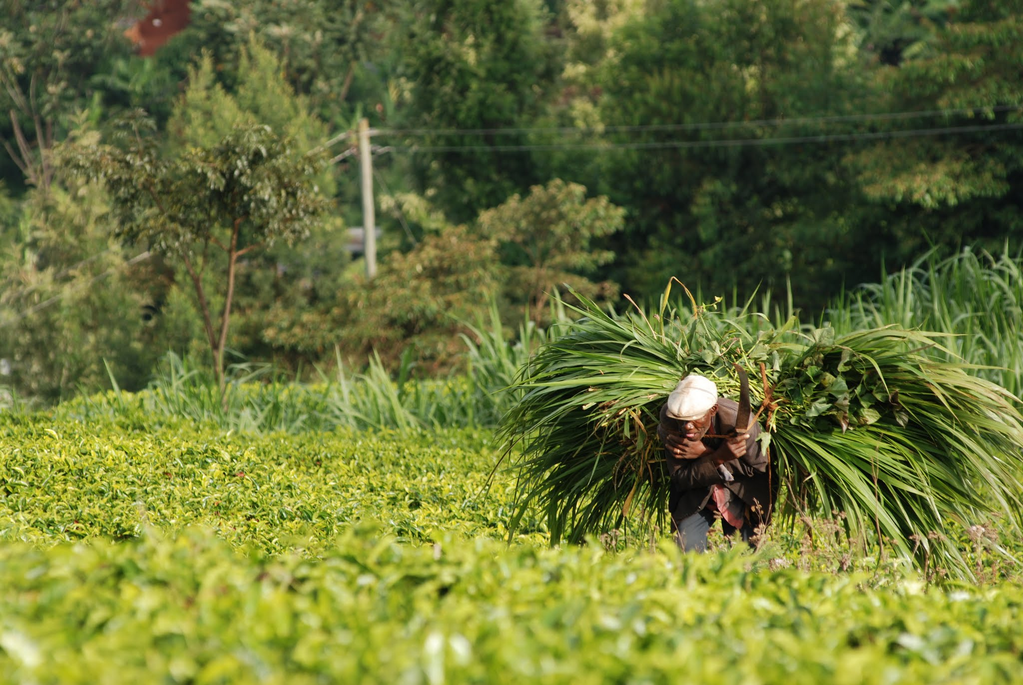 Kenyan farmer hauling Pennisetum purpureum grass as fodder for livestock, walking through a plantation of tea. This is an image of "African people at work" from Kenya